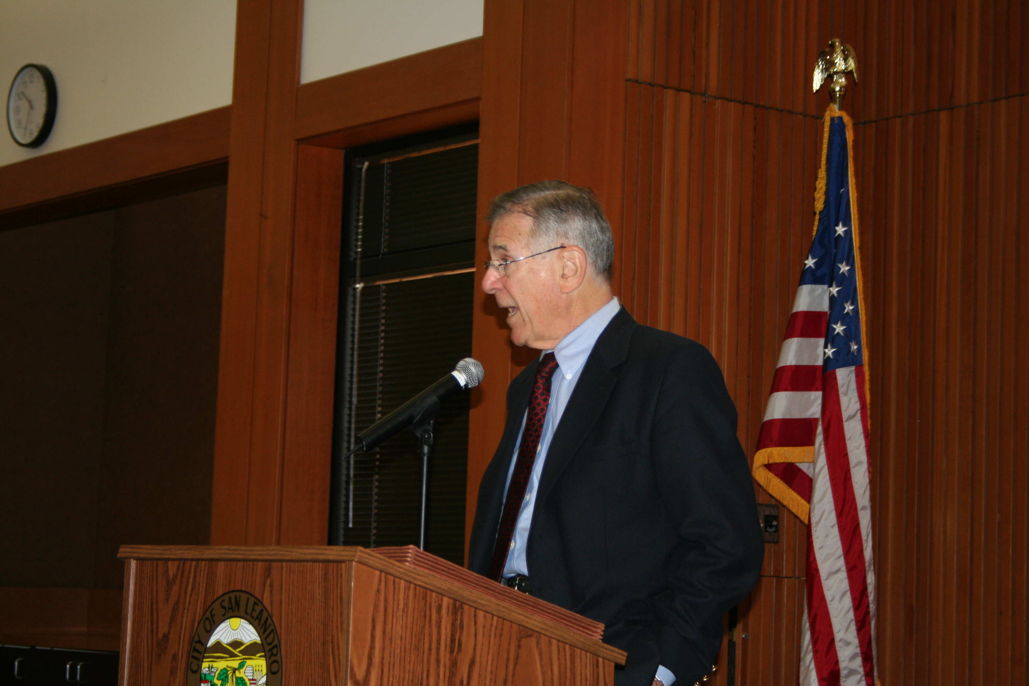 Congressman Pete Stark (District 13, California) speaks at a Town Hall meeting in San Leandro, California on January 20th, 2008 at the Dave Karp Senior Facility.